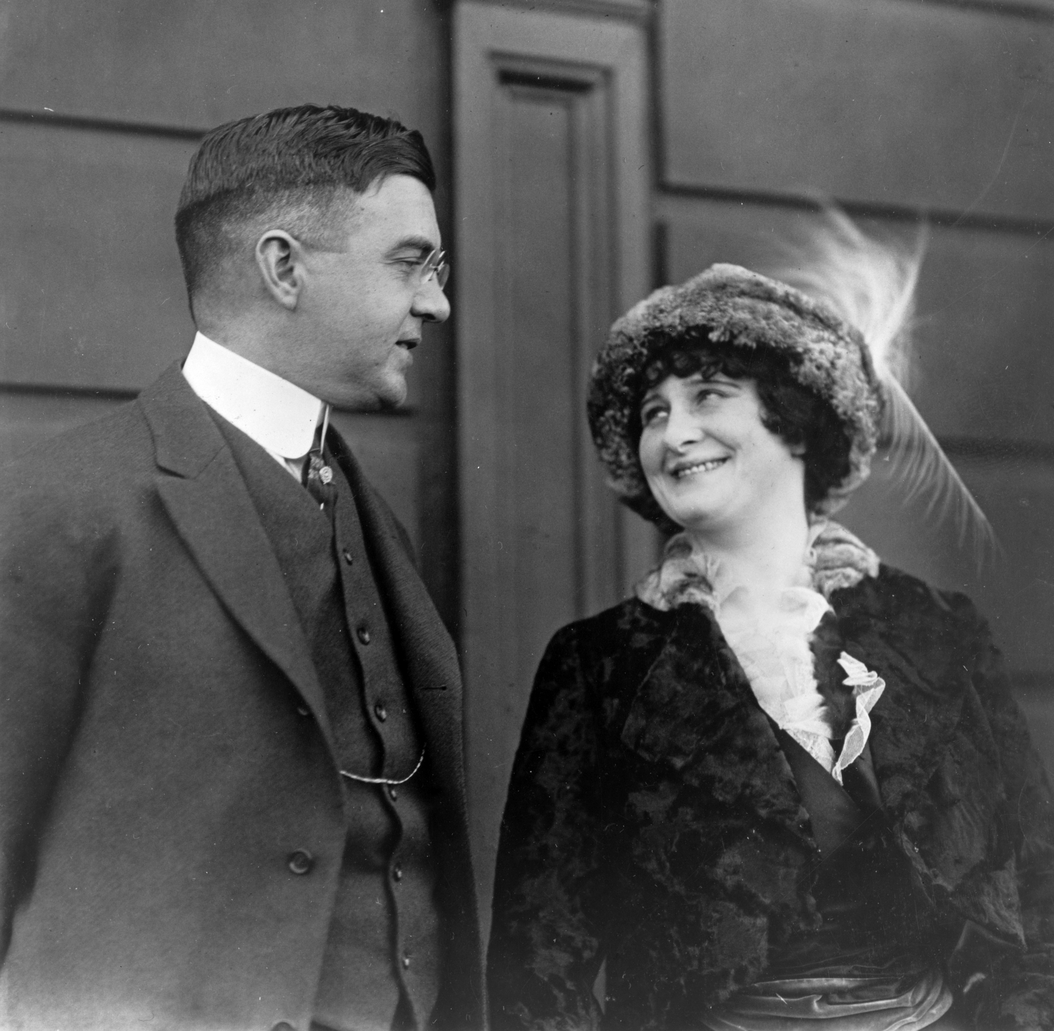 Helene Britton, owner of the St. Louis Cardinals (1911–16), and her husband Schuyler, half-length, conversing.